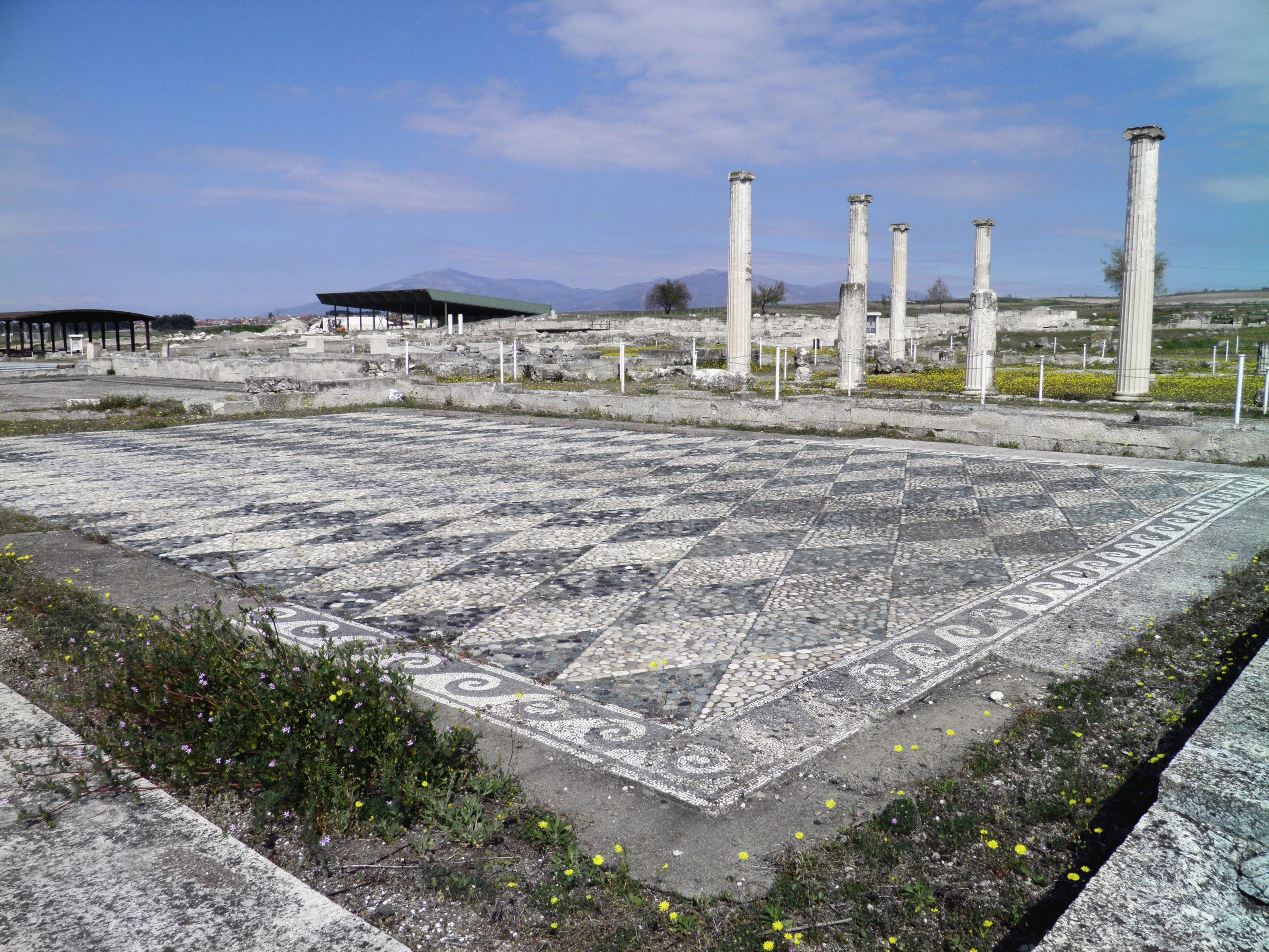 The big antechamber paved with white and black pebbles forming lozenges from the House of Dionysos, built in 325-300 BC, Ancient Pella